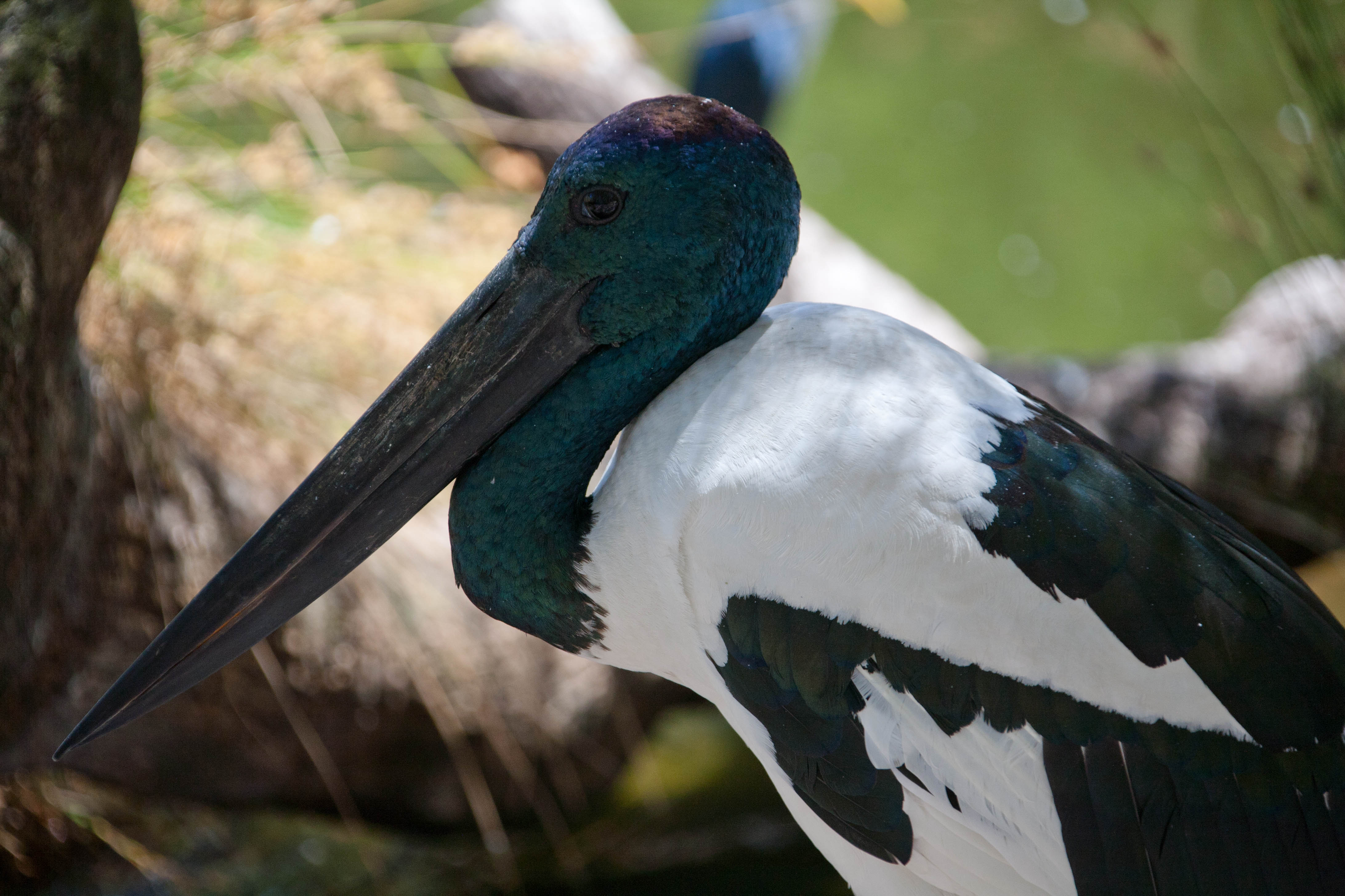 A male Black-necked Stork at Perth Zoo, Australia.